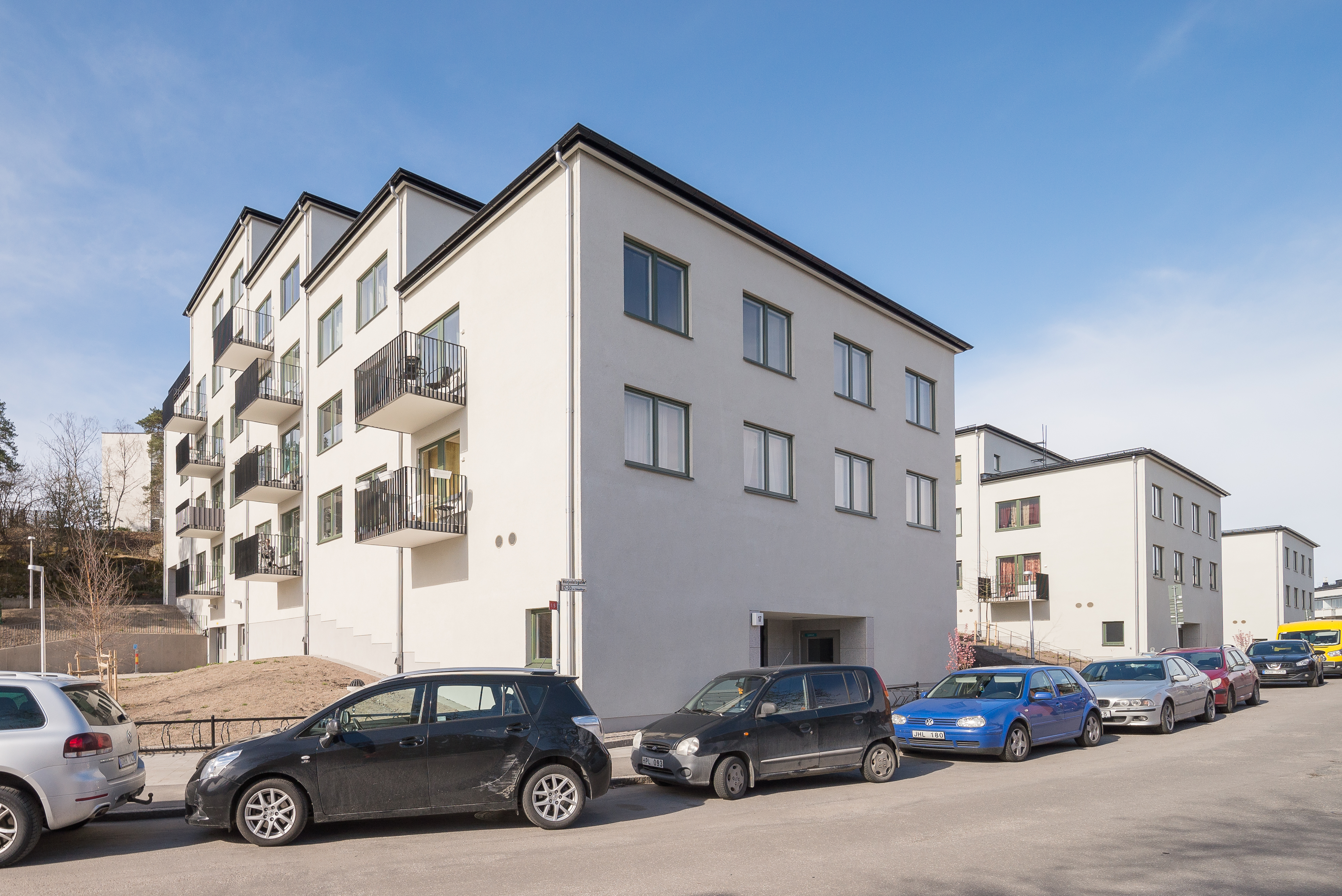 Apartment building in Vällingby build 2016. Architects: Vera arkitekter.